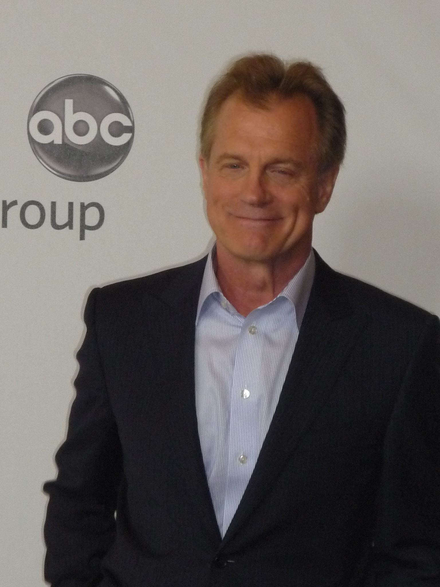 Stephen Collins after a Dirty Rumpus on the set of Romper Room